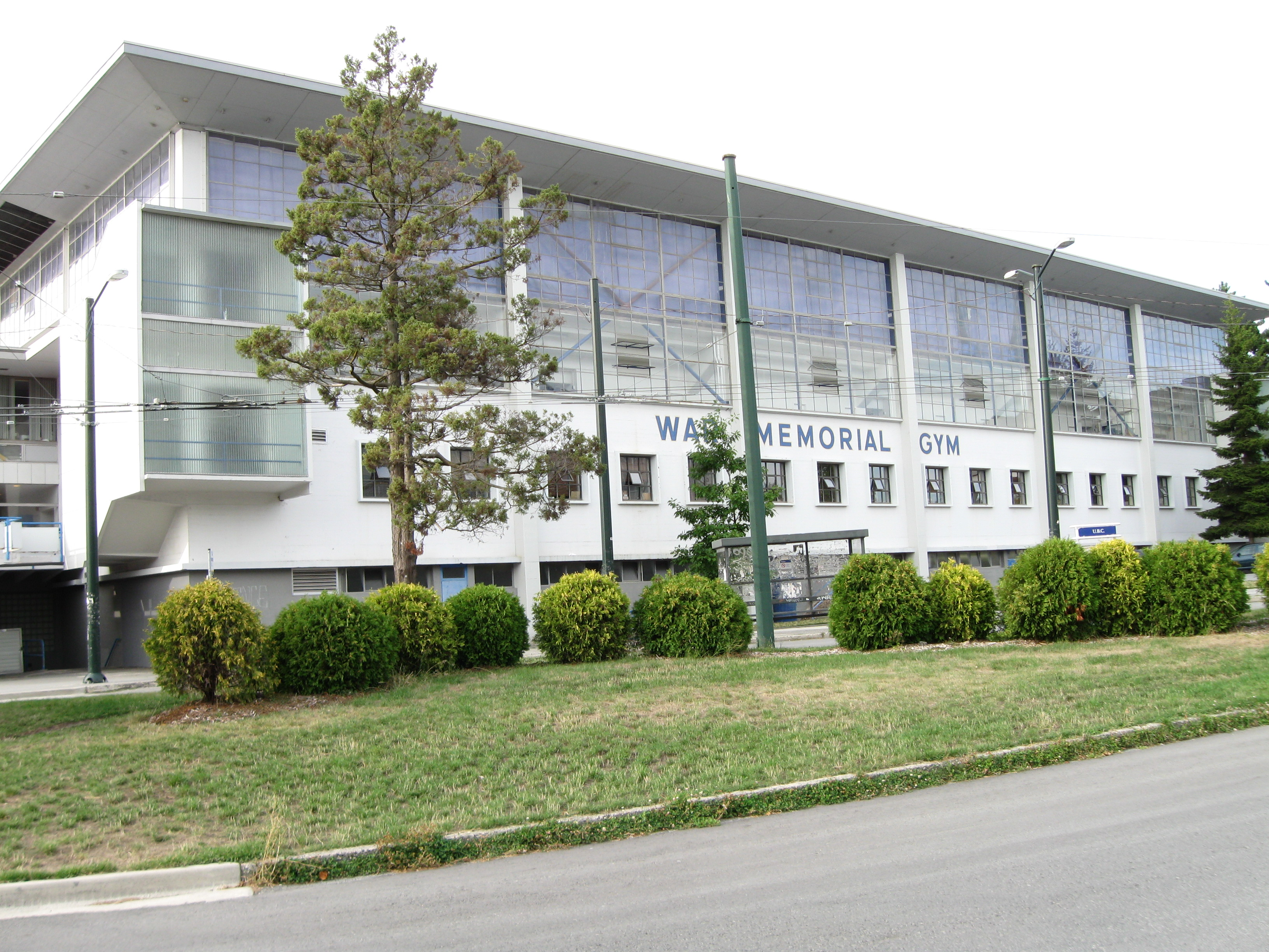 A view of the War Memorial Gymnasium located at 6081 University Boulevard on UBC campus in Vancouver, BC, Canada. It was opened in 1951 in honour of Canadian World War One and World War Two veterans. It currently houses the Department of Athletics and recreation of UBC as well as a basketball court